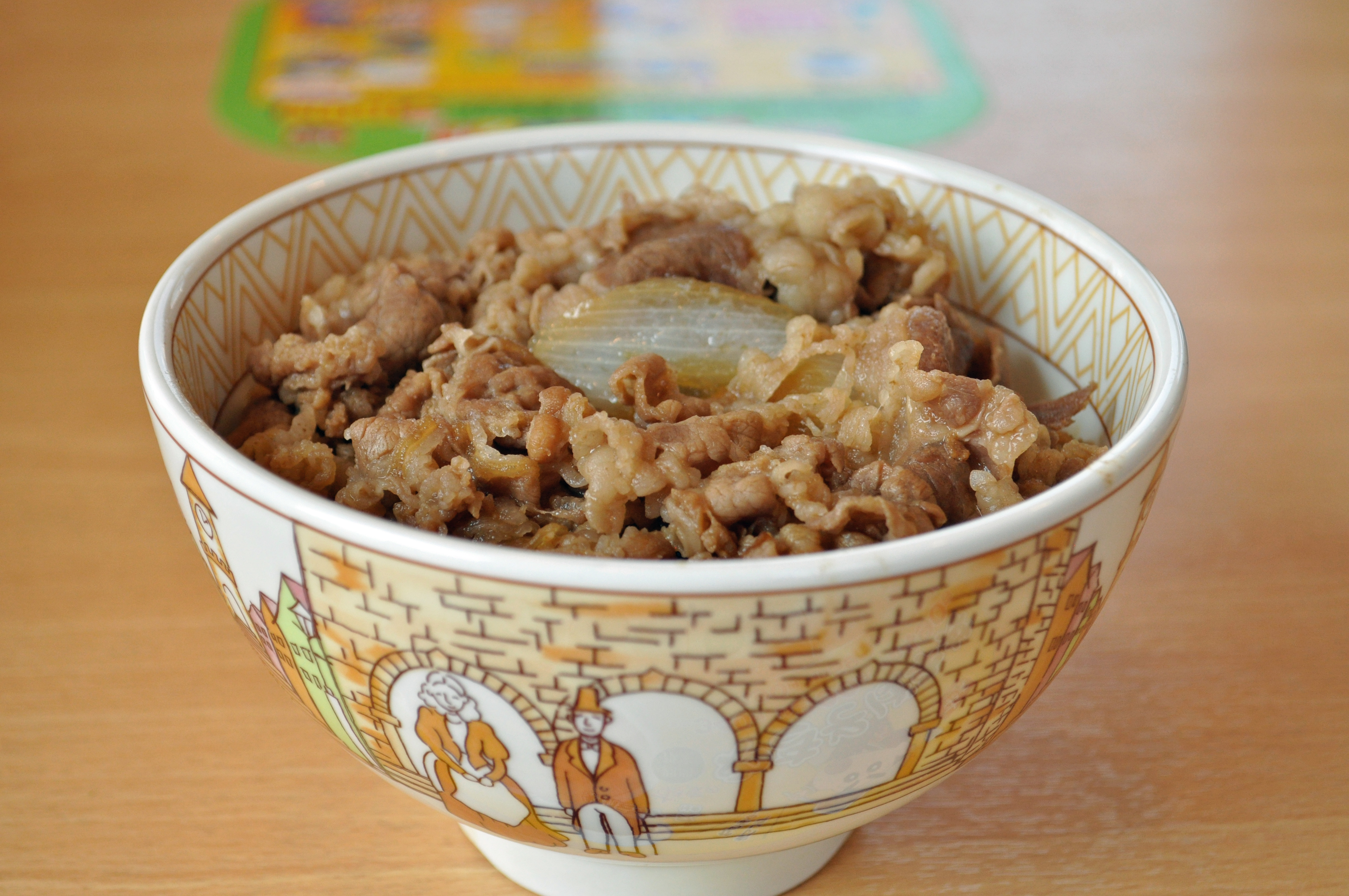 Sukiya Beef Bowl, regular size.